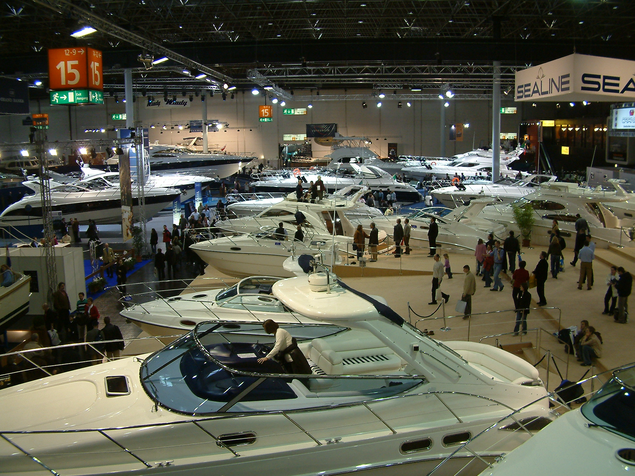 2005 boot Düsseldorf boat show